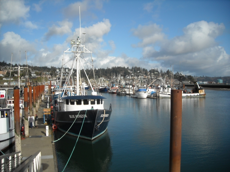 View of Newport Harbor in Newport